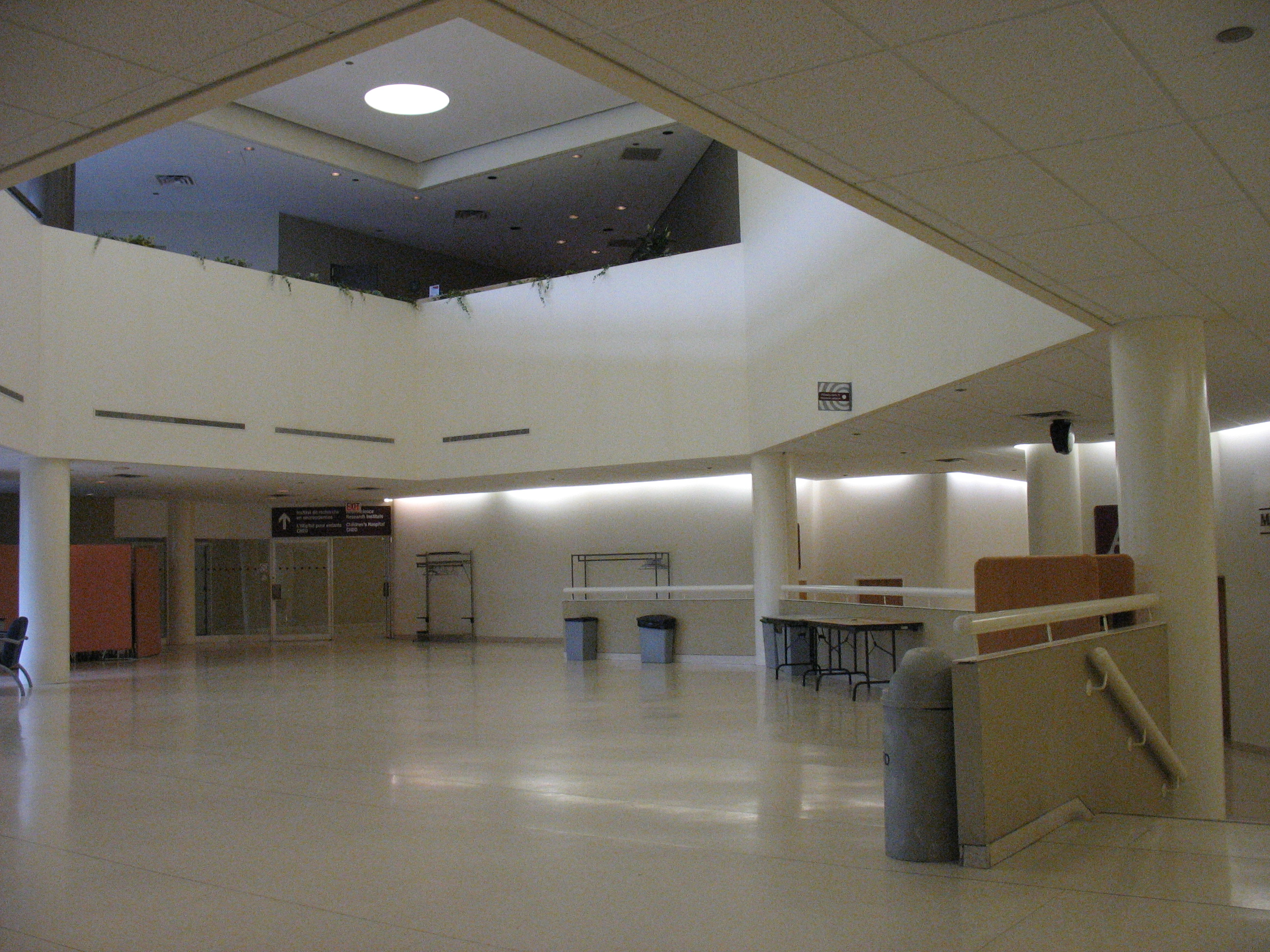 Faculty of Medicine - University of Ottawa - Roger-Guindon Hall